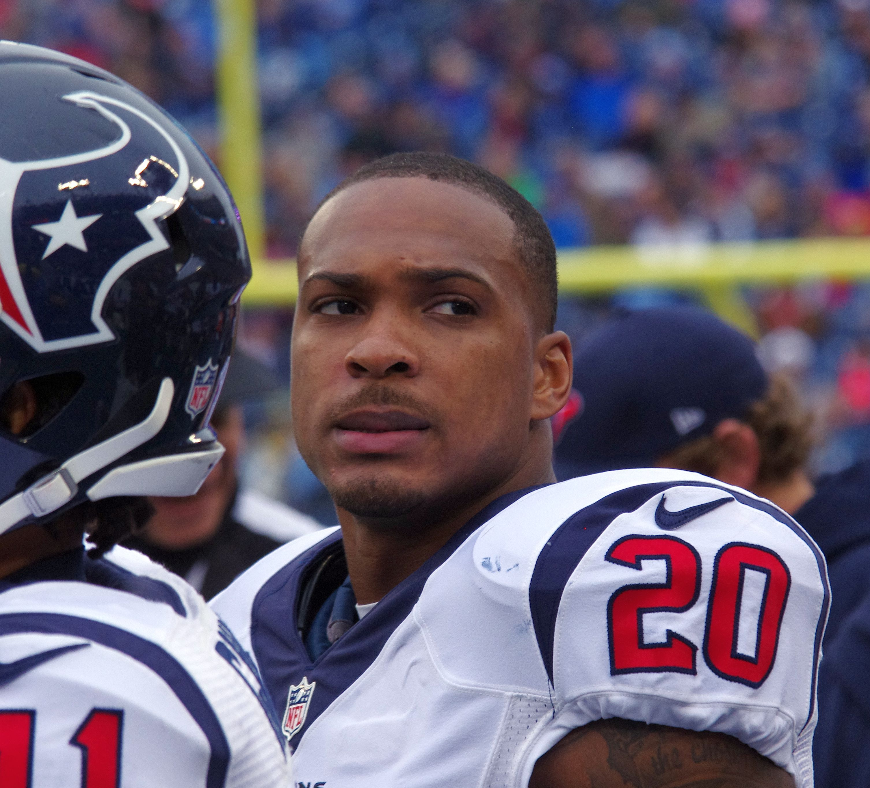 Don "DJ" Jones safety for the Houston Texas vs. the Tennessee Titans. Jan. 1, 2017